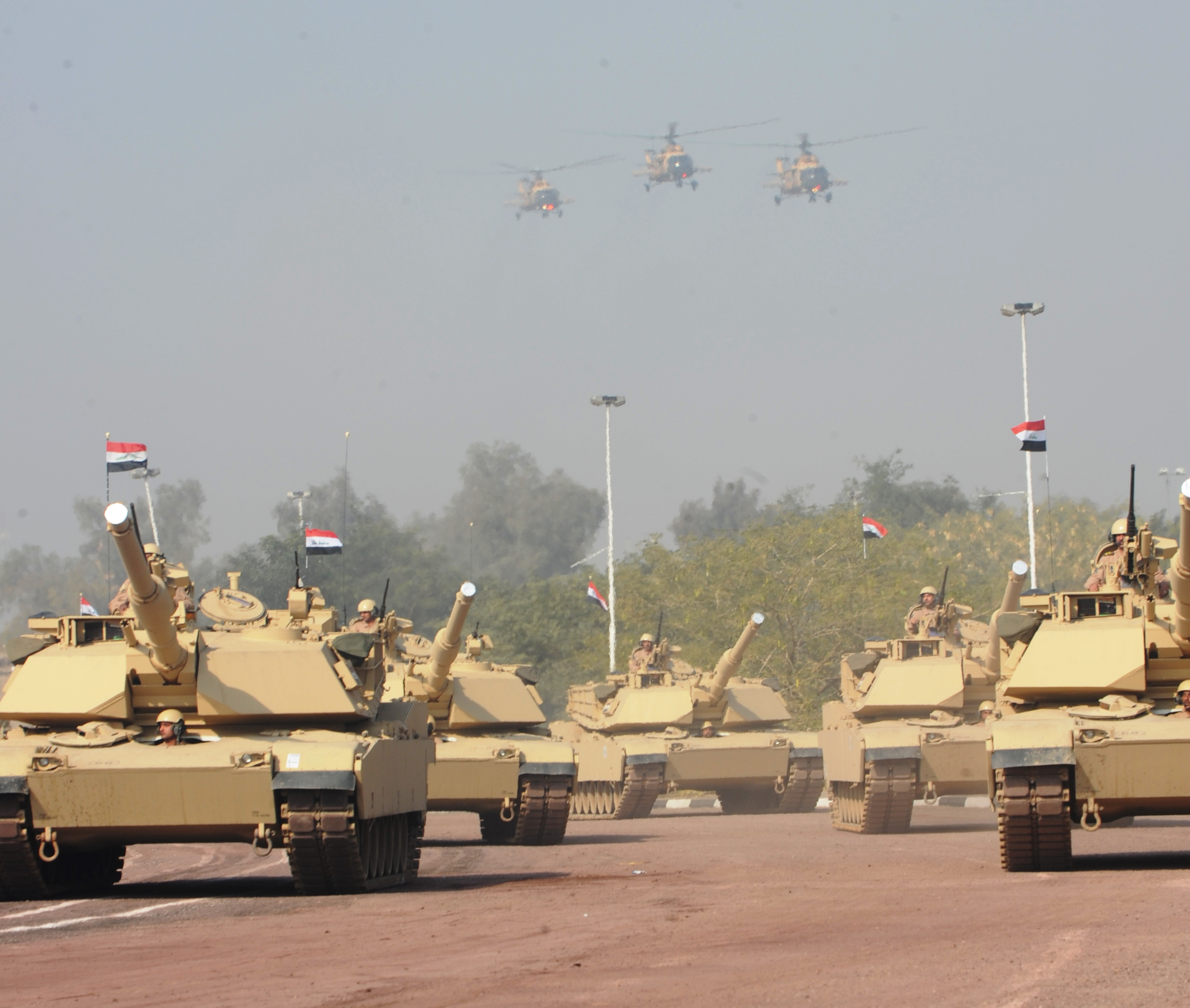 Iraqi forces display vehicle and aircraft capabilities during the Iraqi Army Day celebration in the International Zone, Iraq, January 6, 2011. Iraqi Army Day was celebrated by Iraqi forces parading around the Tomb of the Unknown Soldier.